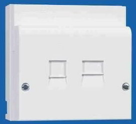 British telephone sockets